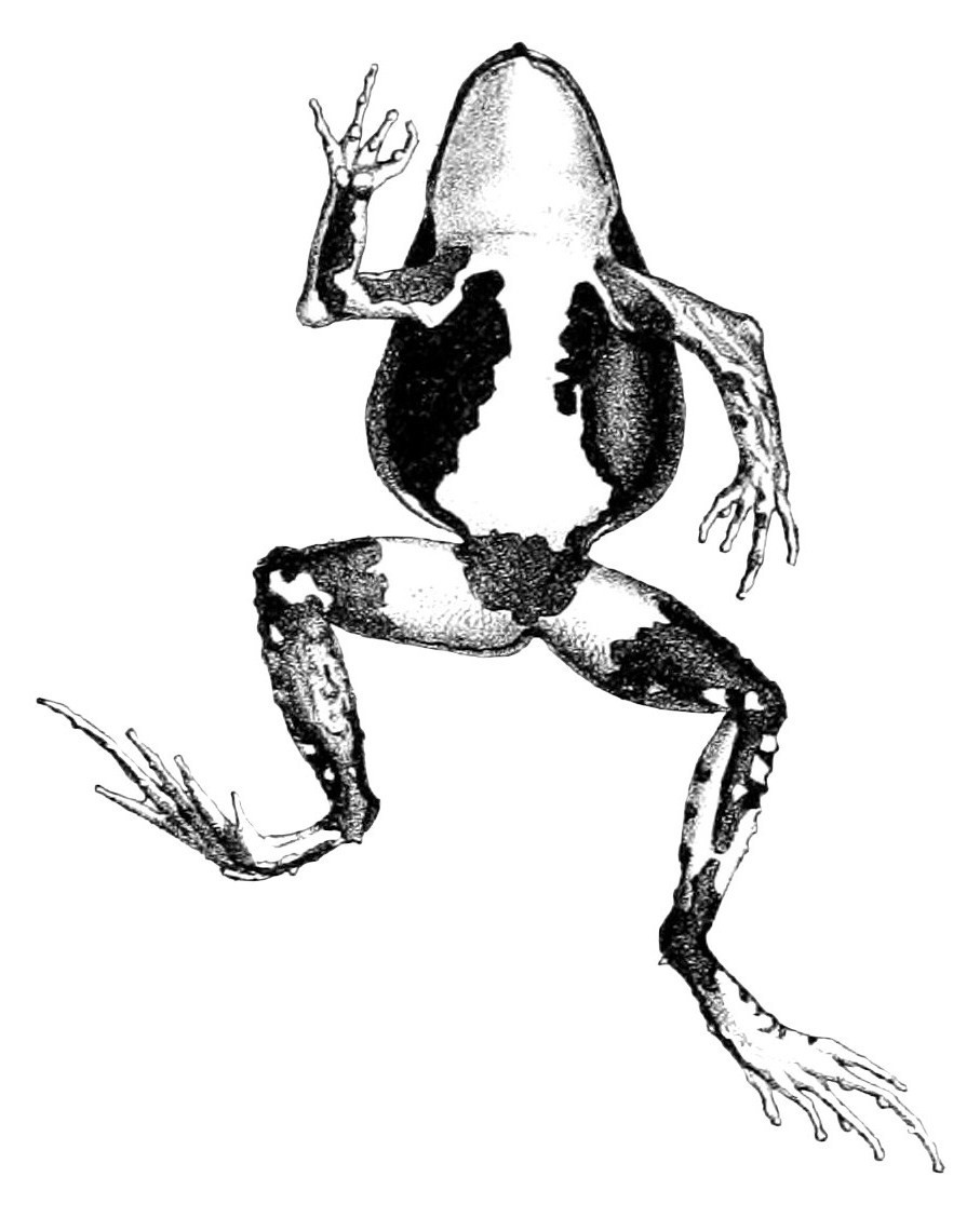 Edalorhina buckleyi = Edalorhina perezi - lower view